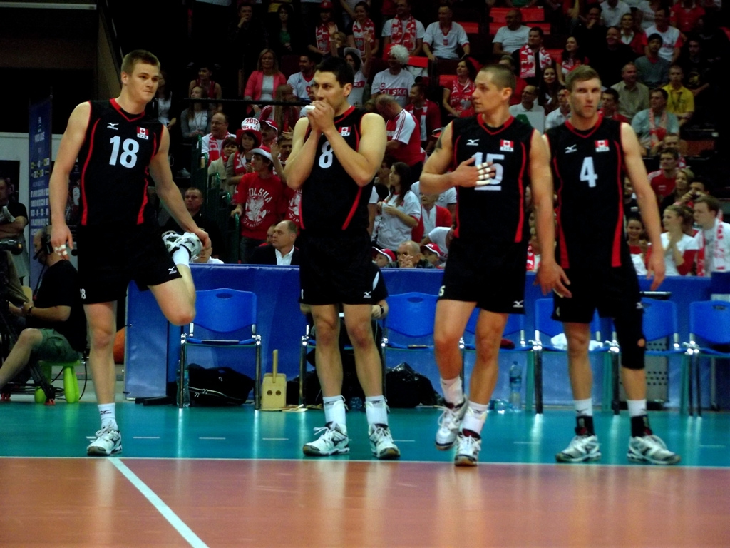 John Perrin, Adam Simac, Frederic Winters, Joshua Howatson.